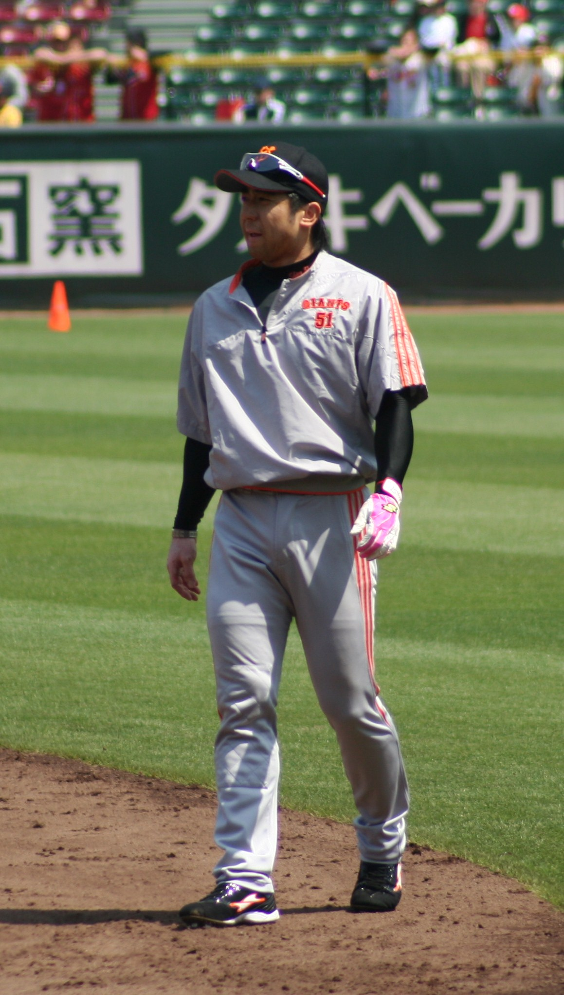 Shigeyuki Furuki, infielder of the Yomiuri Giants, at Mazda Stadium.